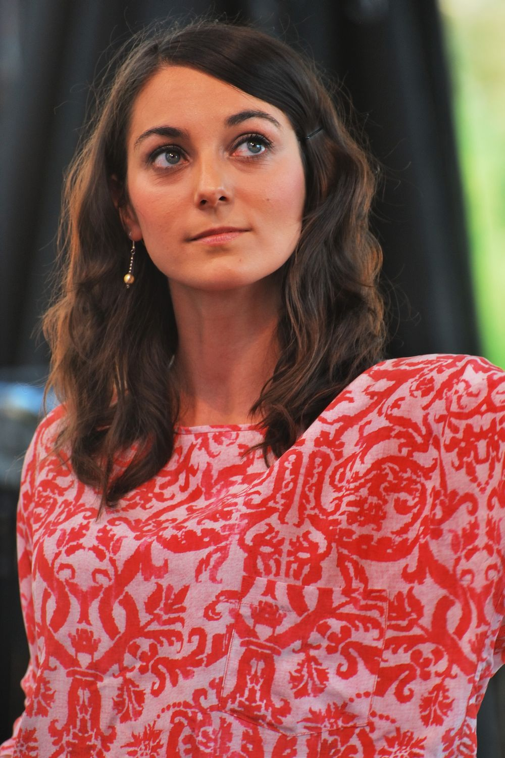 Boggie in Pécs, Hungary